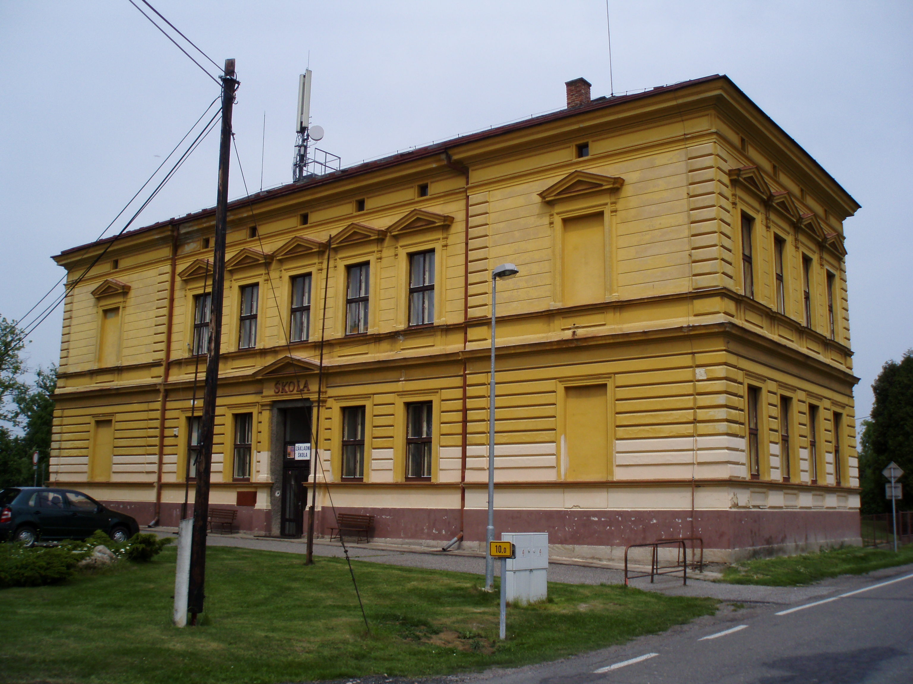 Elementary school in Hořičky (District of Náchod)